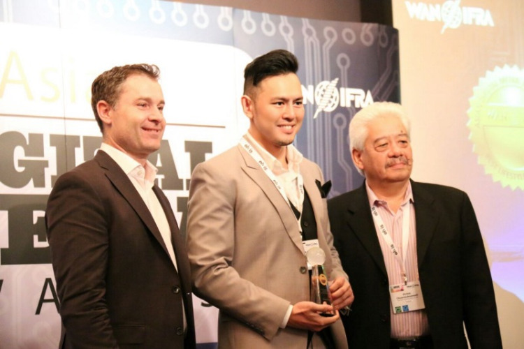 Herbert Rafael Sim (center) recipient of the Gold Award for Best Lifestyle Website at the Asian Digital Media Awards, organised by the World Association of Newspapers and News Publishers (WAN-IFRA)